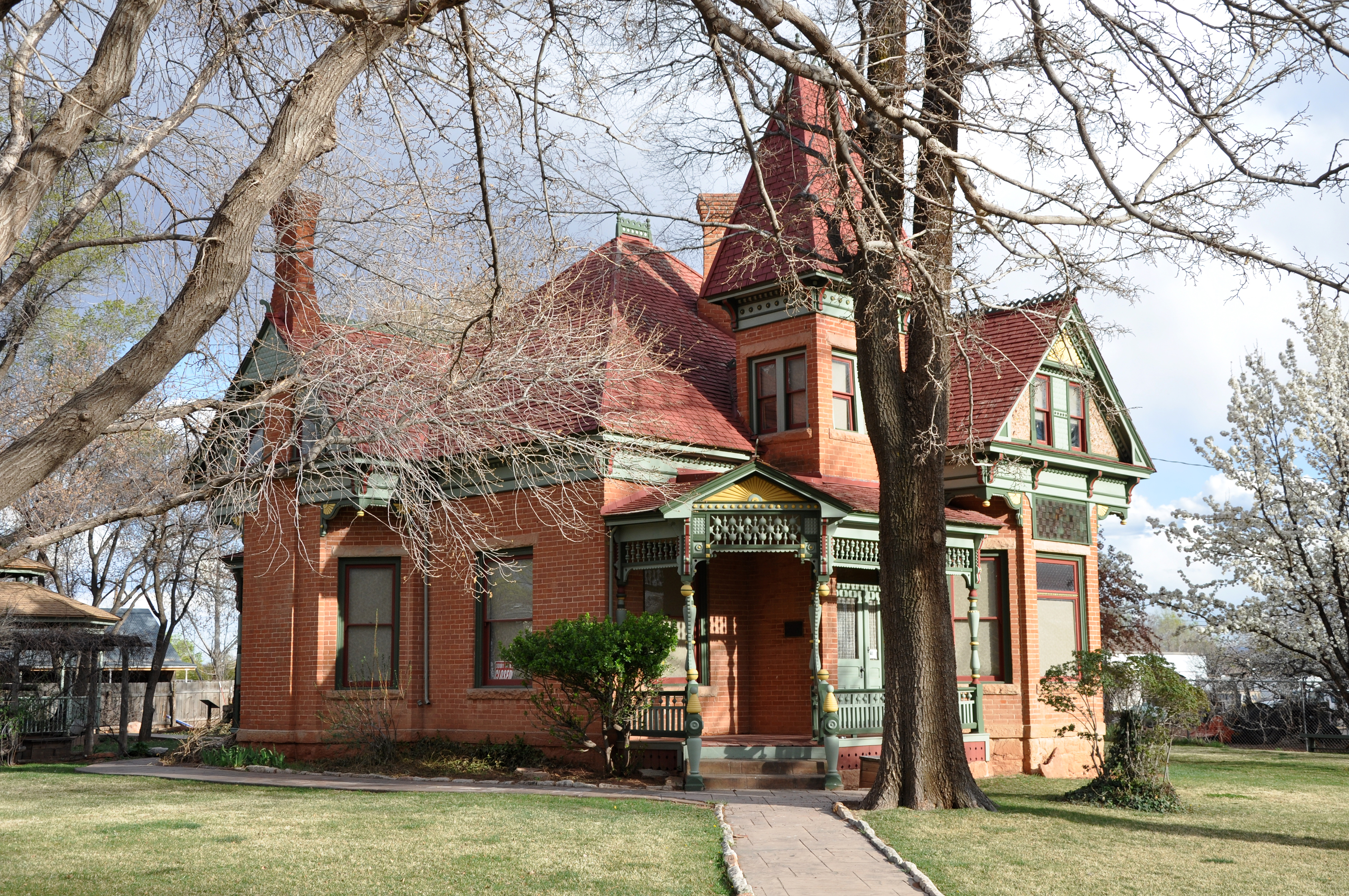 Bowman-Chamberlain House in Kanab in the U.S. state of Utah.